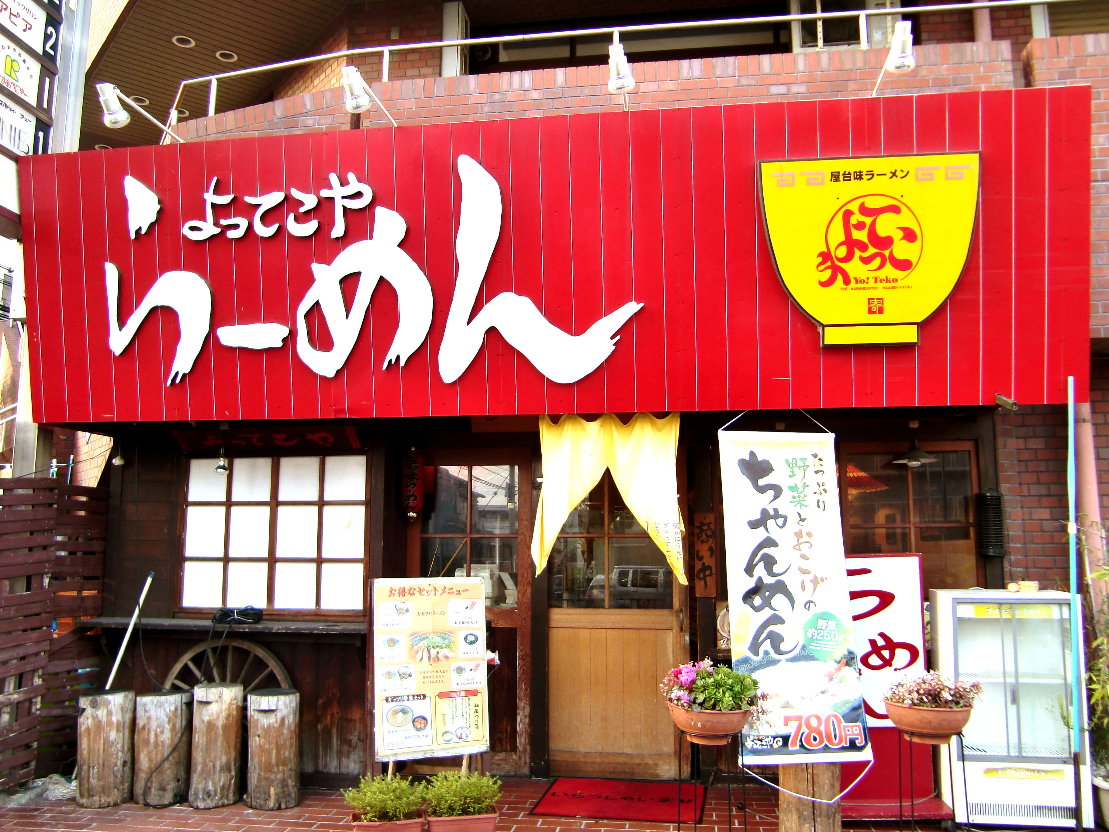 Yottekoya Hankyu Ibaraki,4-29 Funakicho Ibaraki-City Osaka Japan.